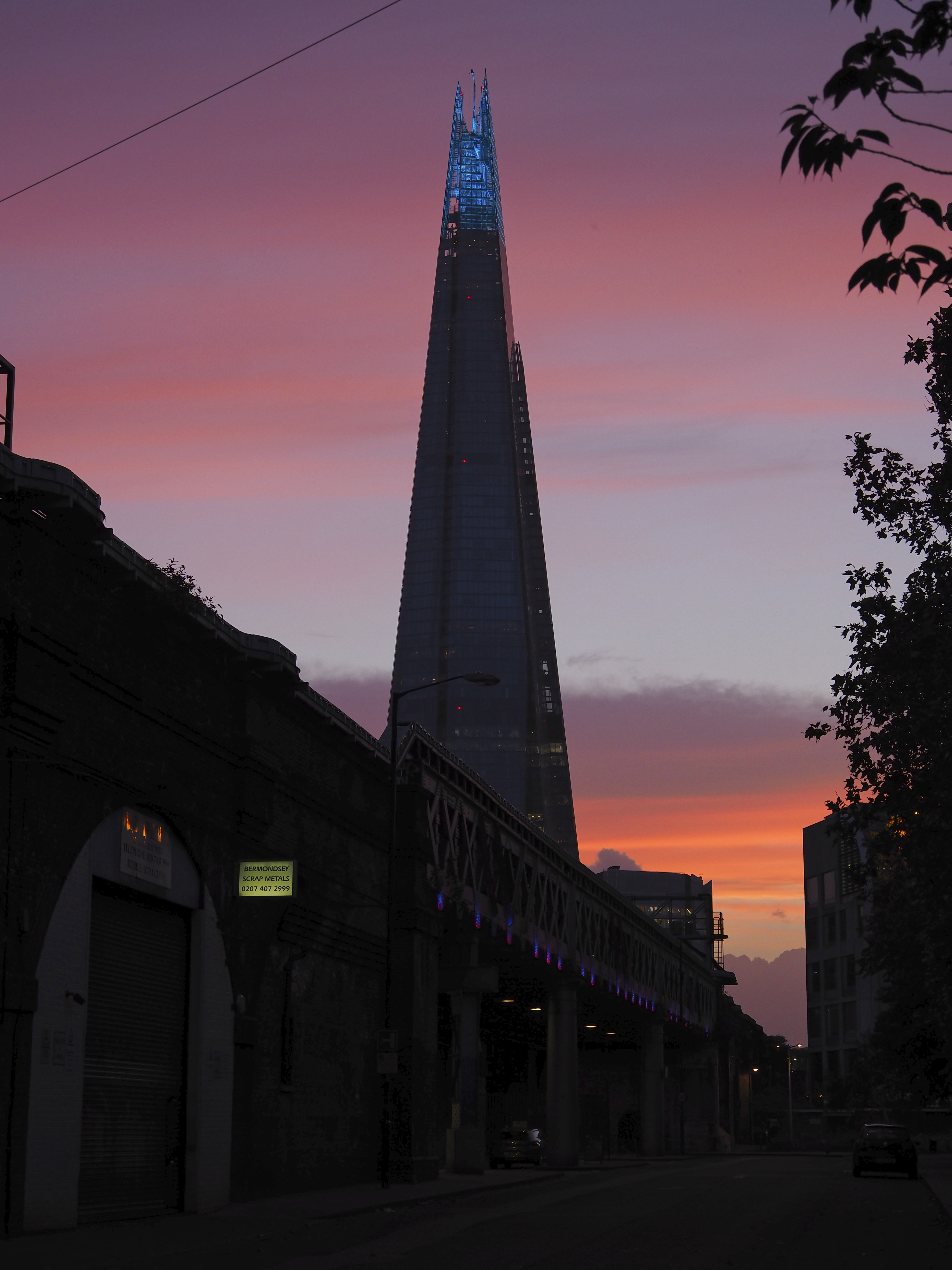 The Shard against a pink sunset